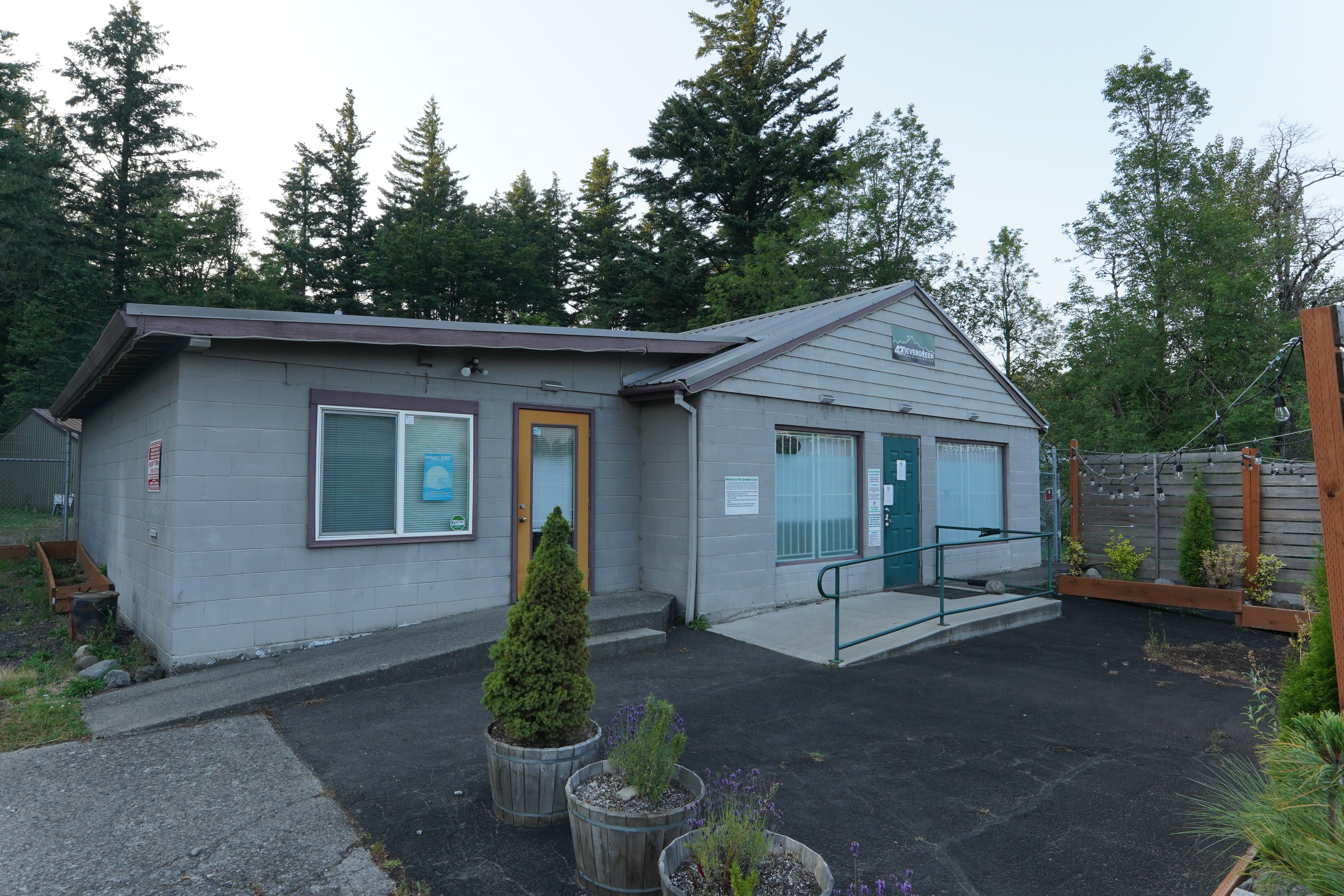 The photograph shows the building housing a business advertised as "420 Evergreen" in Stevenson, Washington. It is located at 25 NE 2nd Street, Stevenson, WA, 98648. A marker on the building indicates the location is also known as "Cannabis Corner". Photograph taken on 2020-07-03T02:28Z.